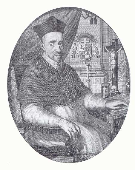 Sasbout Vosmeer (1548-1614)